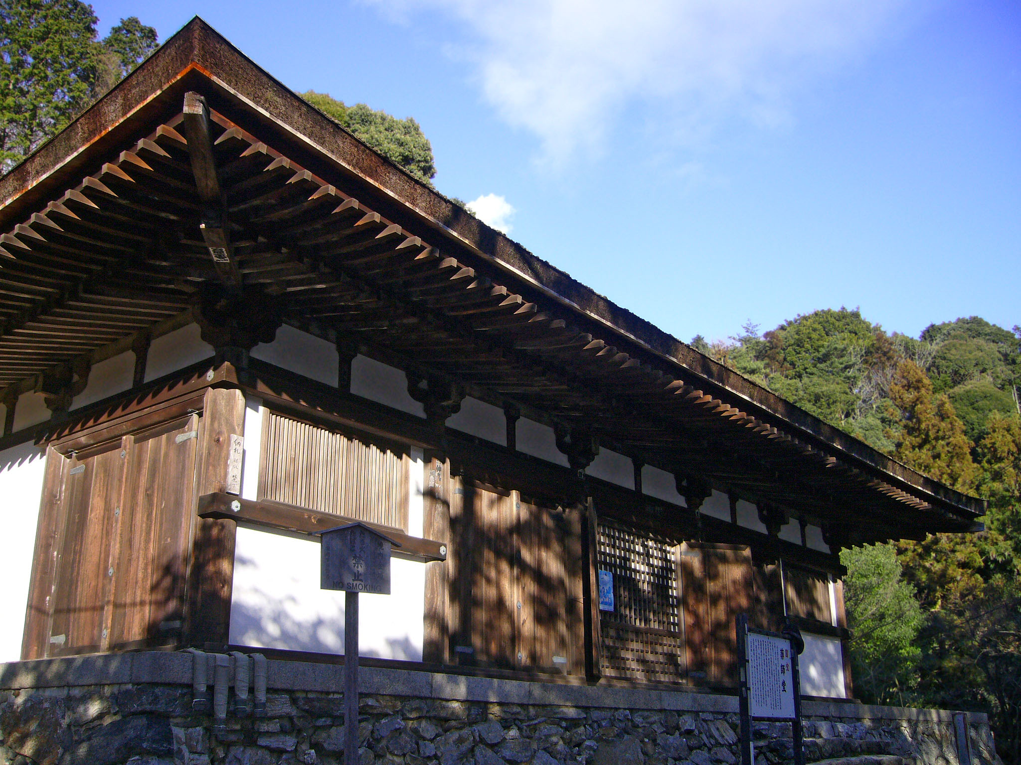 Yakushi Hall in Kami-Daigo in Kyoto, Japan